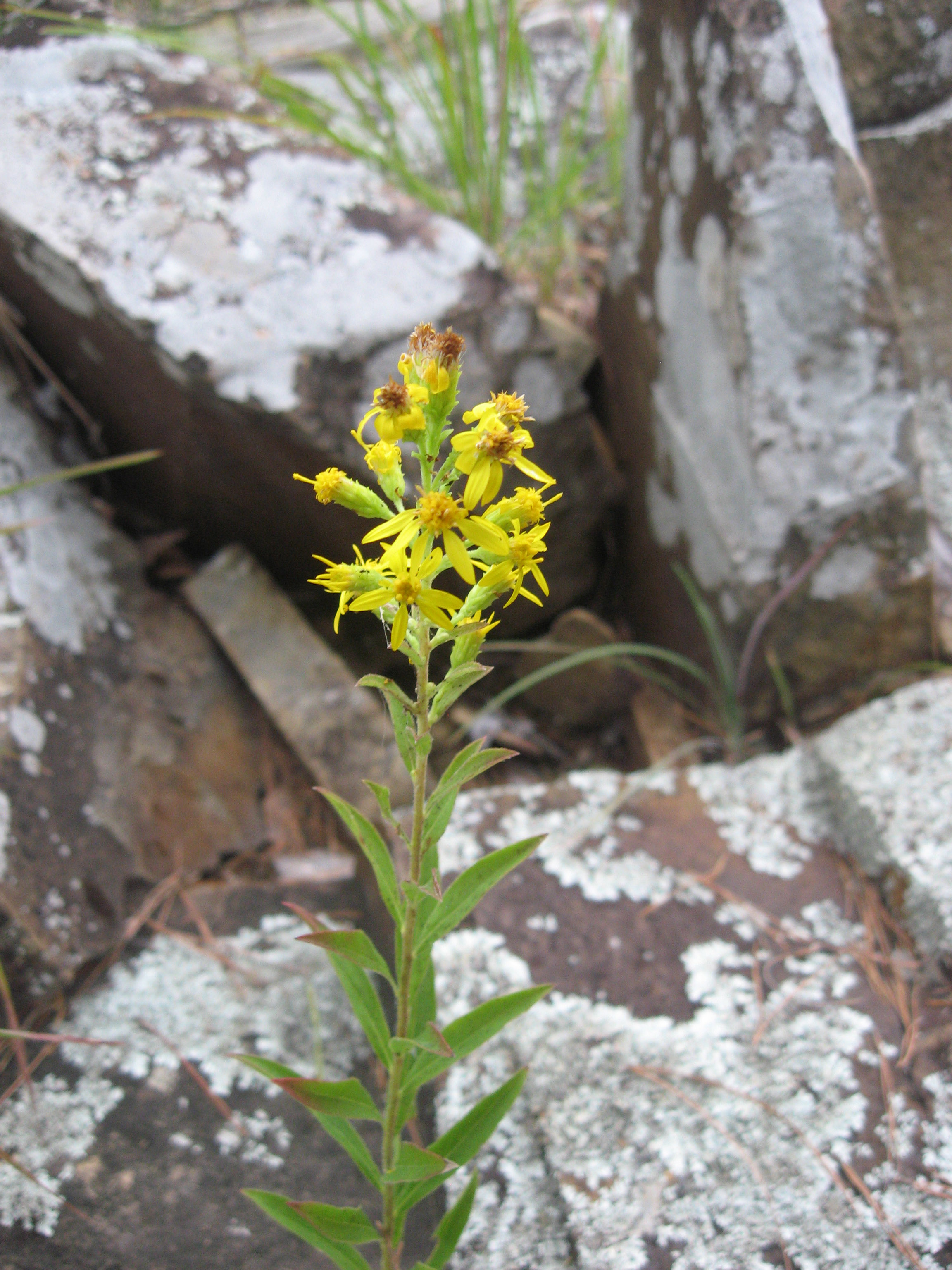 Solidago petiolaris, riverscour of Fourche La Fave River, Perry County, Arkansas.